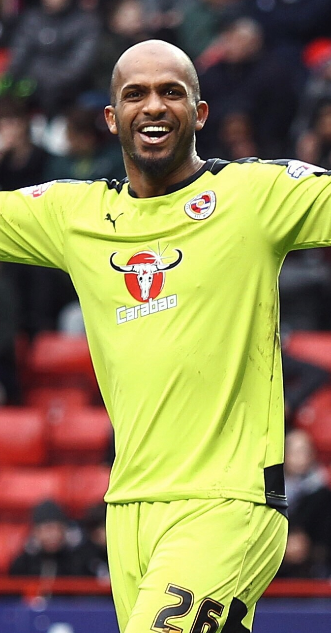 Ali Al-Habsi playing for Reading against Charlton Athletic at The Valley, London on 27 February 2016